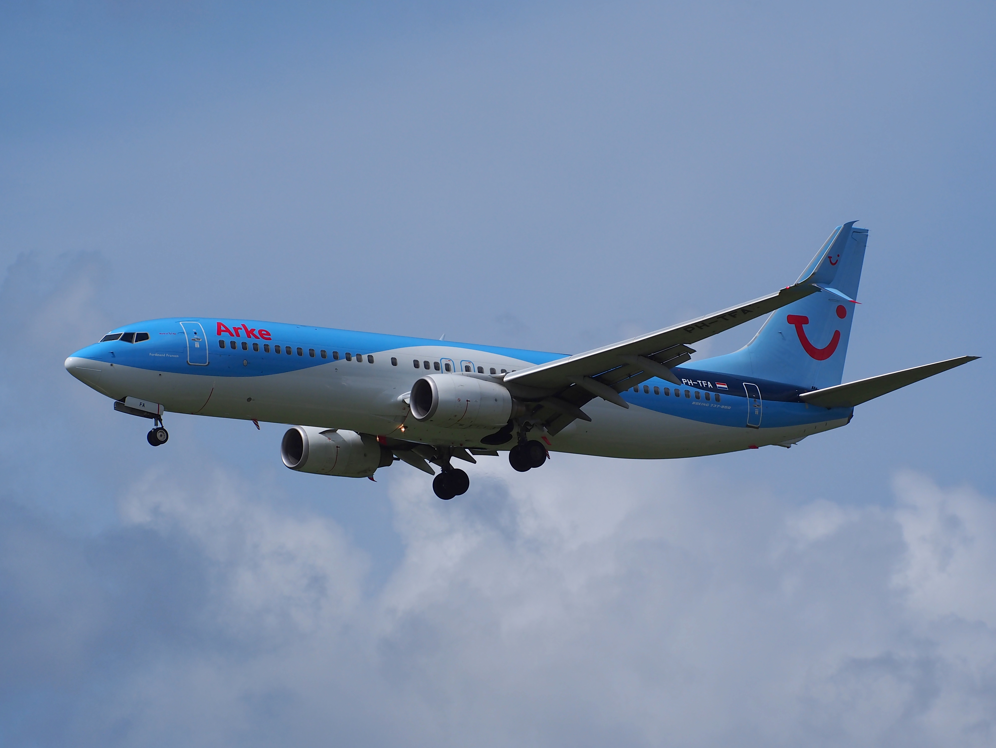 Photographed at Schiphol (AMS - EHAM), The Netherlands.